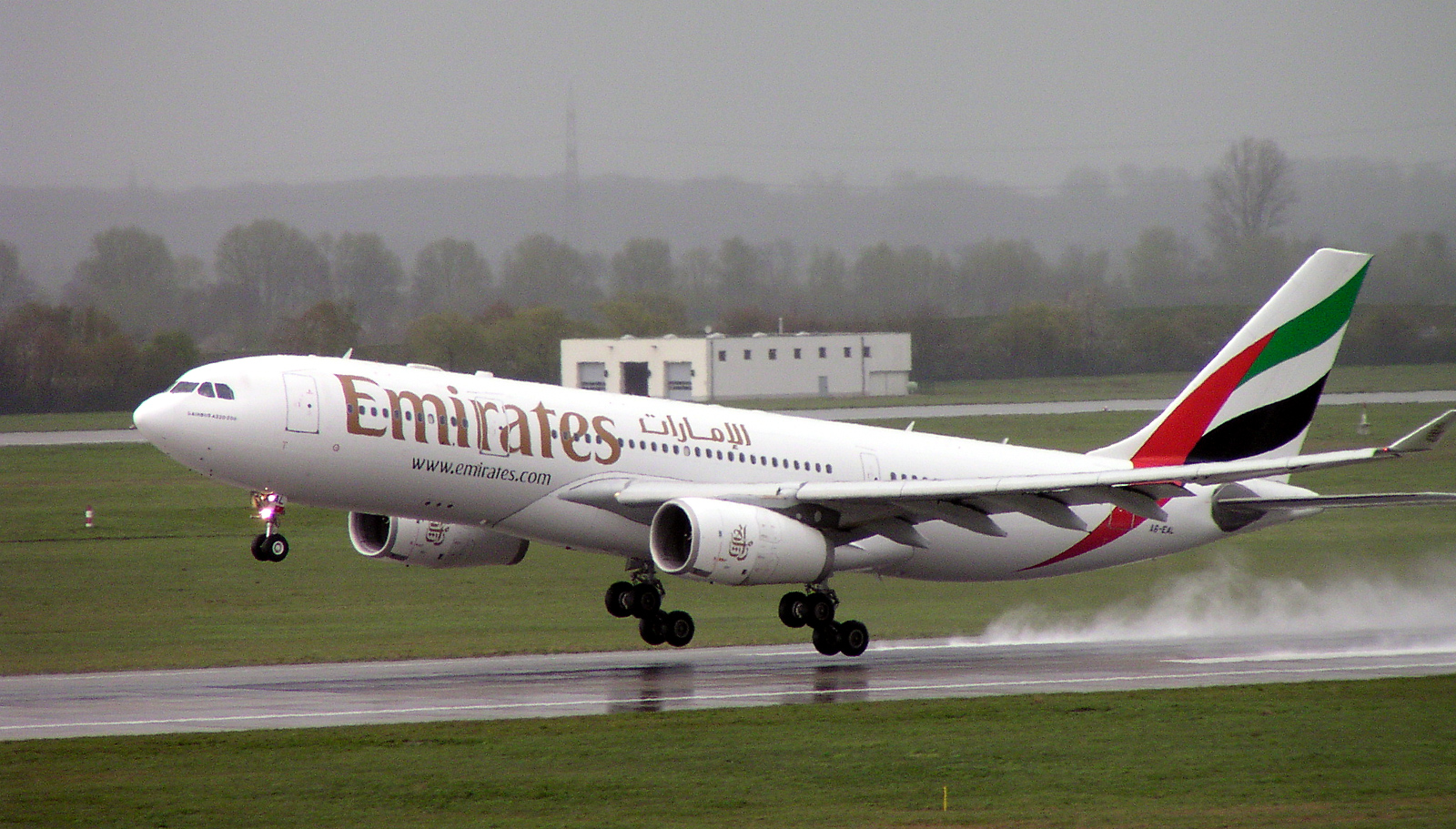 An Emirates Airbus A330-200 (A6-EAL) at Düsseldorf Airport, April 4, 2004.